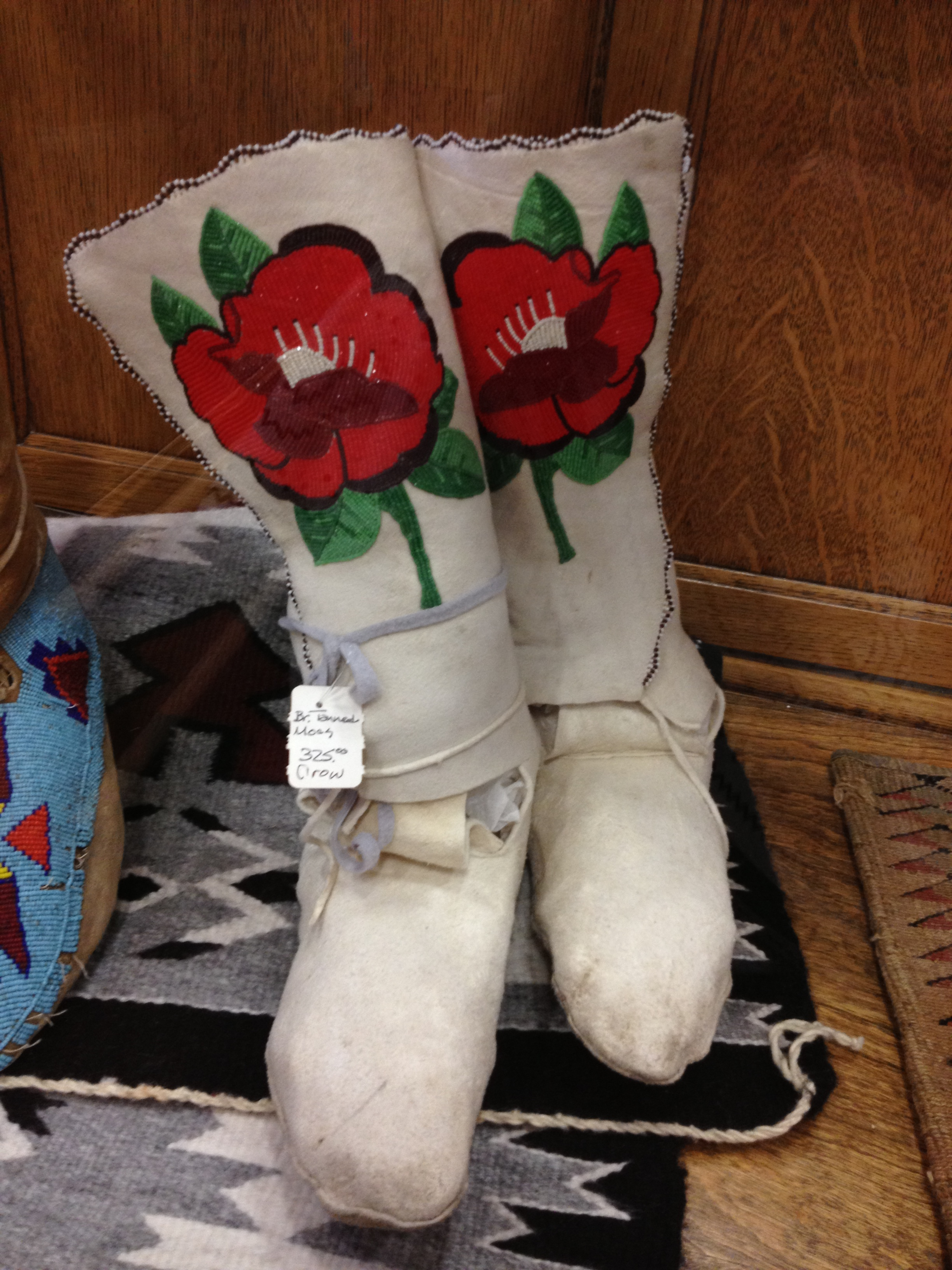 Crow moccasins, white with beadwork of red flowers, made of brain tanned leather. Ninepipes Museum of Early Montana, Charlo, MT. Photo of item in museum shop.